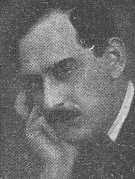 Romanian and Jewish author H. Bonciu.